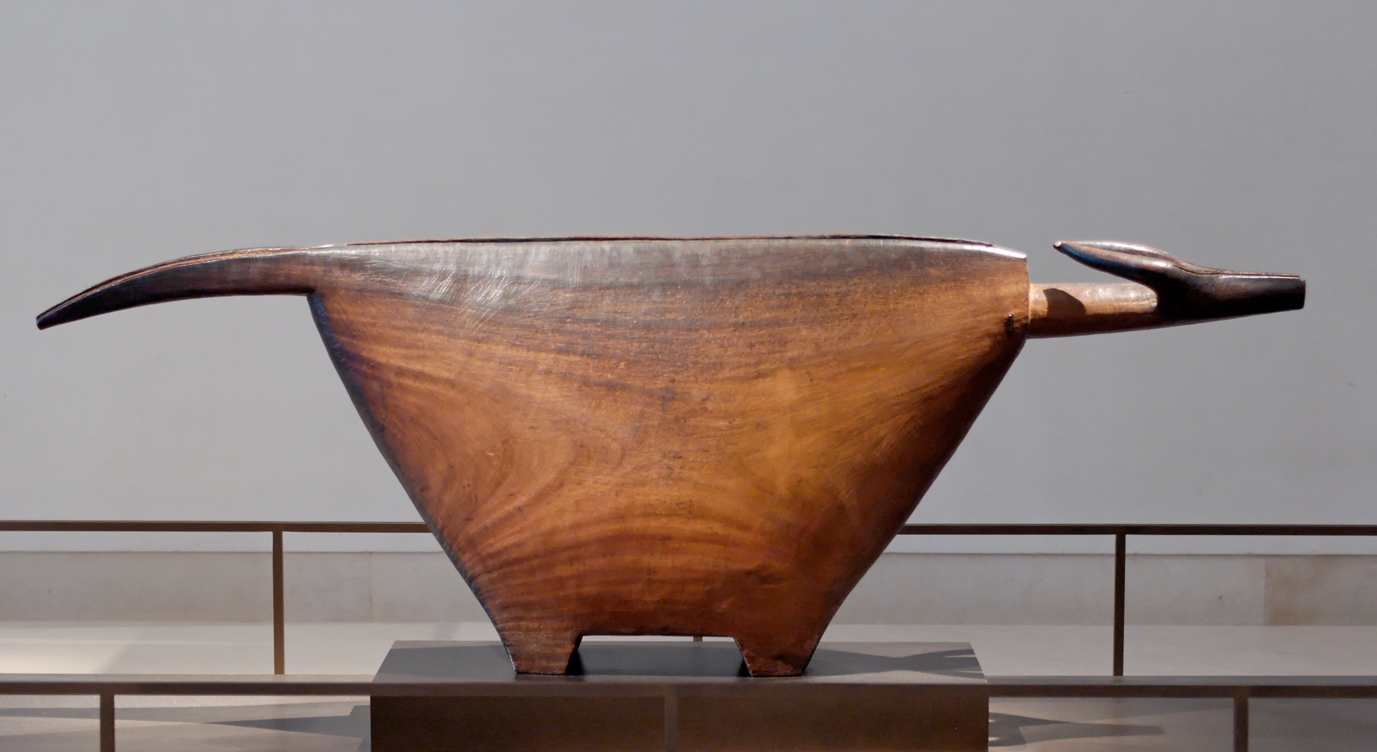 Yangere slit drum. Wood, 19th century, Central African Republic (?).